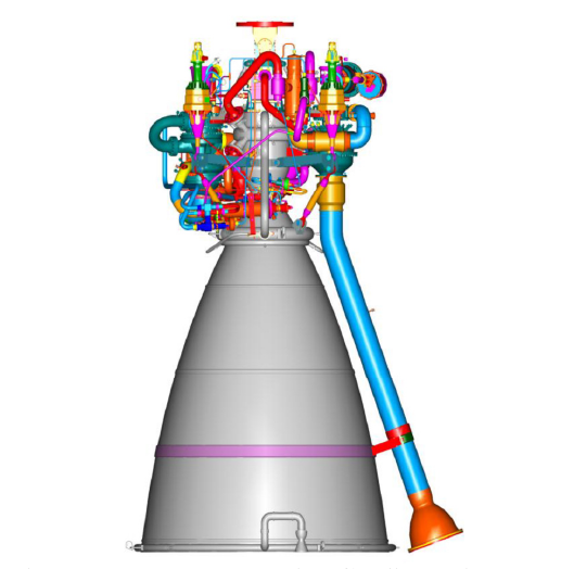 A computer model of CE-20 LH2/LOX cryogenic rocket engine developed by Indian Space Research Organisation for use in the GSLV Mk III orbital rocket.